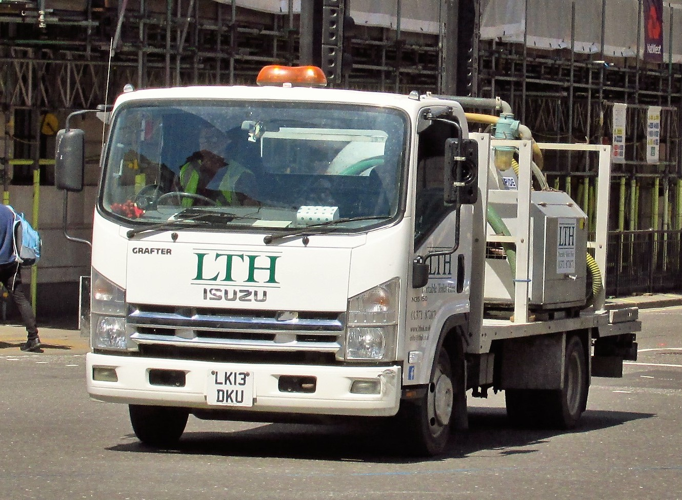 The 1st day of the traffic ban and so many drivers flouting the ban